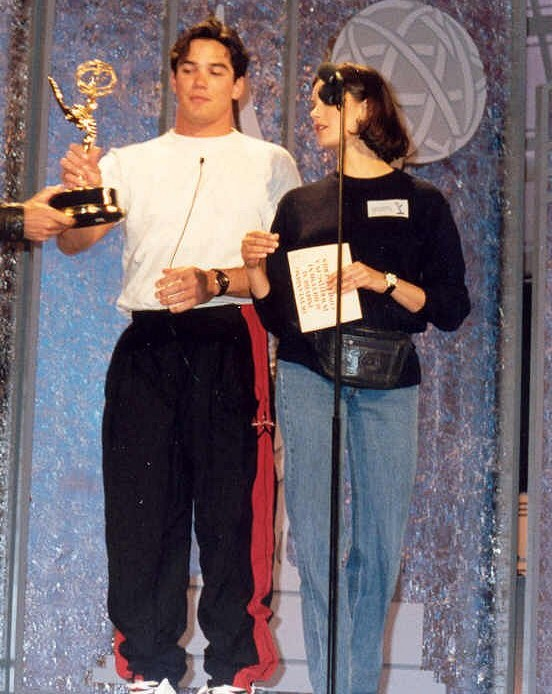 Dean Cain and Teri Hatcher at the 45th Emmy Awards rehearsalterihatcher_deancain-2